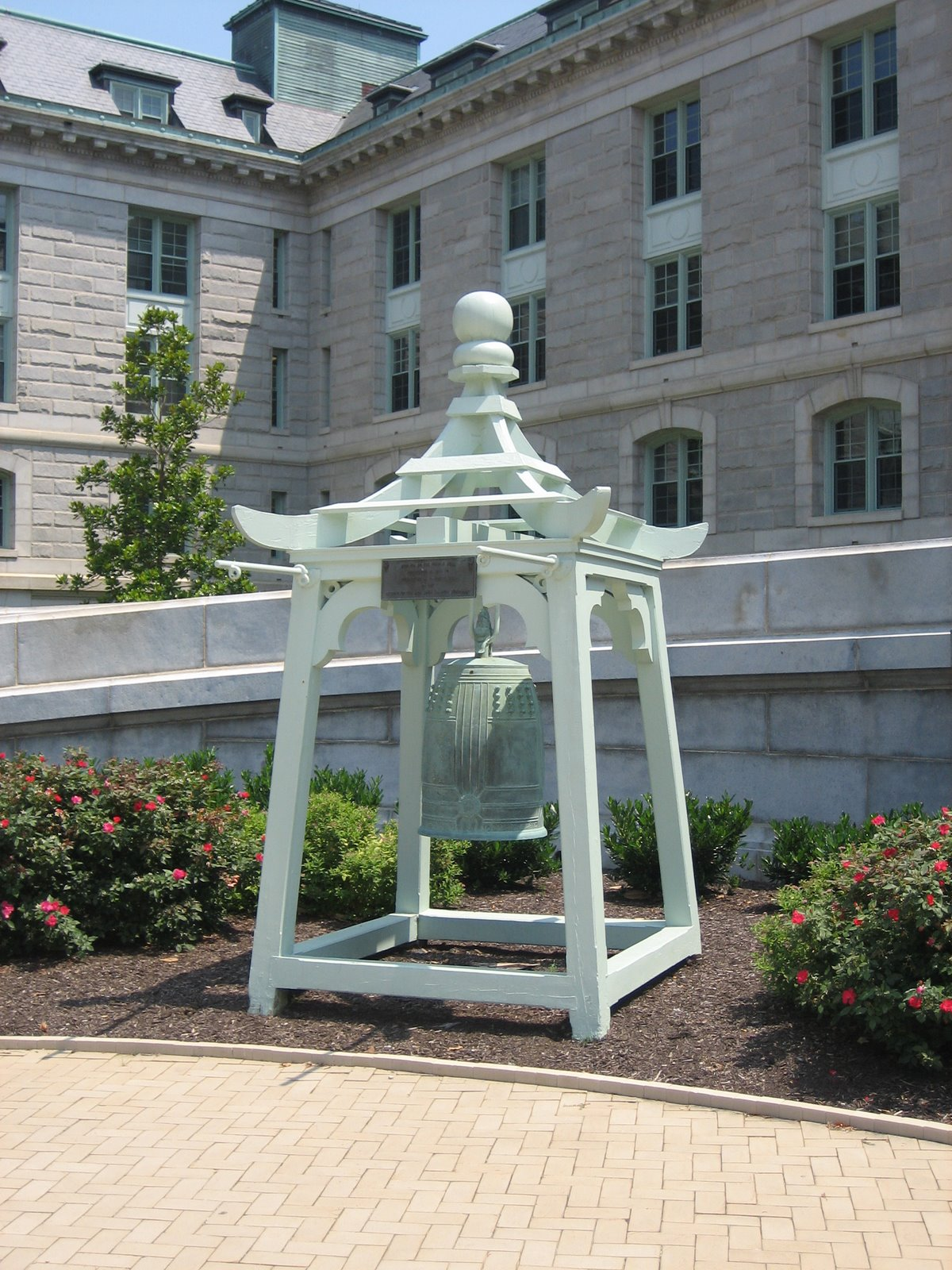 Exact replica of the Gokoku-ji Bell which sits in a couryard in front of Bancroft Hall at the United States Naval Academy in Annapolis, MD. Taken by Brian D. Bell, July 2006.